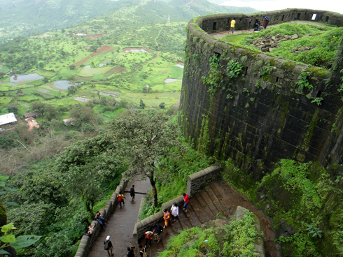 Pune Takes india